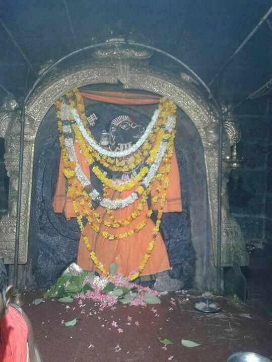 Veera anjaneya swamy deity of Madhumanchi padu temple, guntur